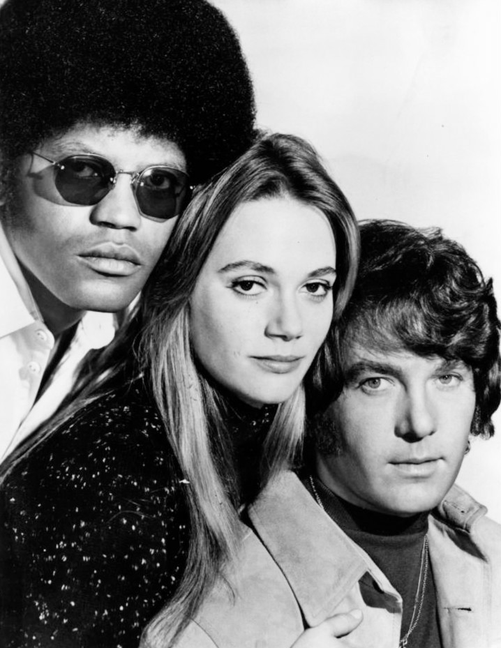 Publicity photo from the television program The Mod Squad. The main cast is pictured, from left: Clarence Williams III, Peggy Lipton, Michael Cole.